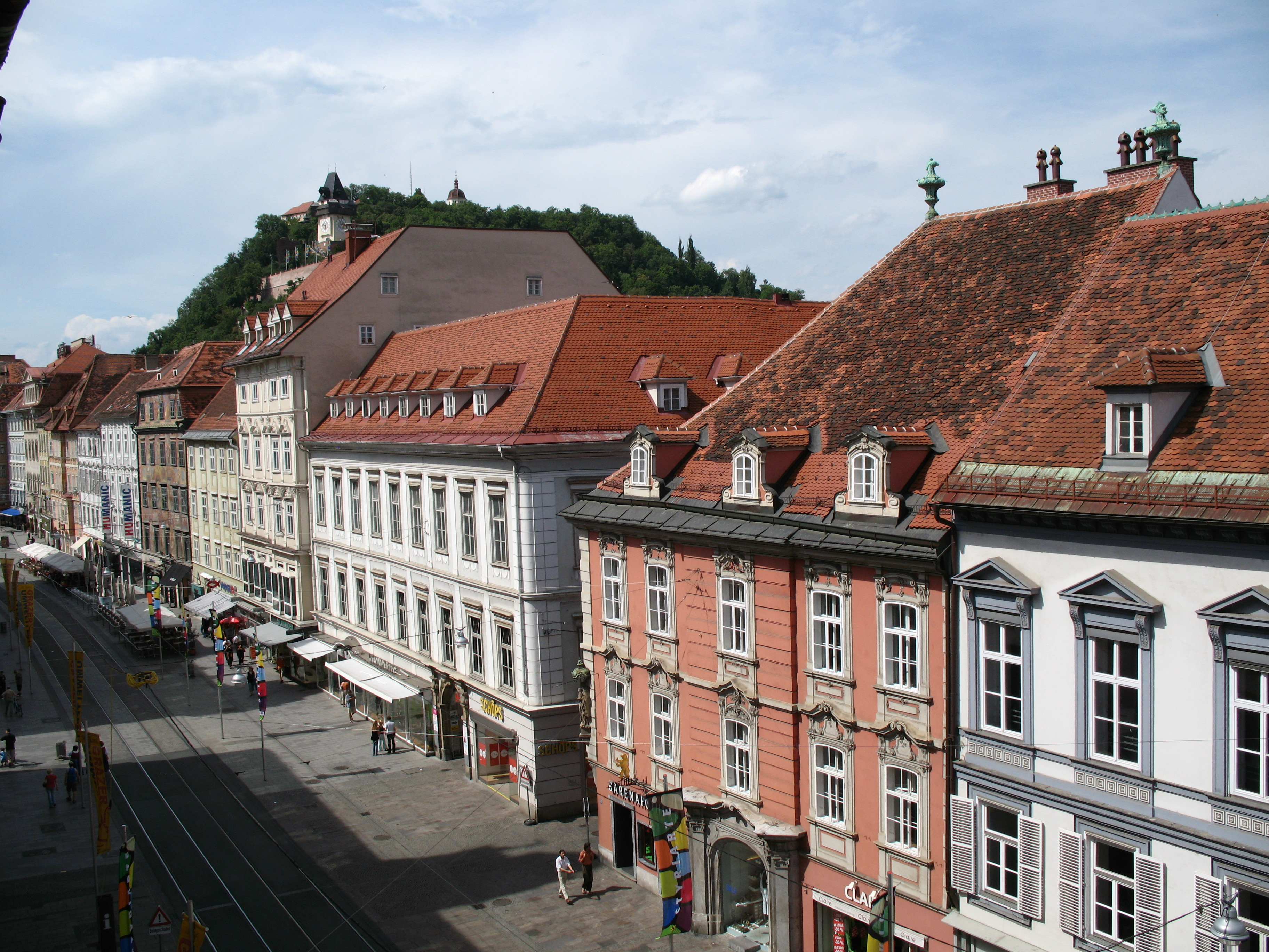 Gentlemen Lane viewed from the National Arsenal, Graz, Austria